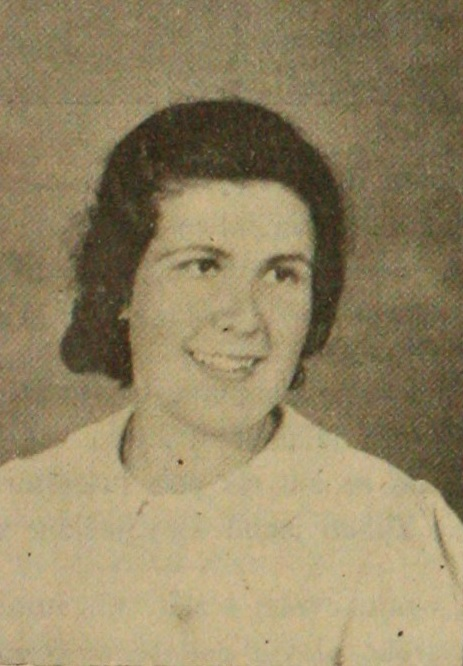 The photo of the Bosnian woman writer Džemila Hanumica Zekić published in 1939 in the old Bosnian literary magazine Novi behar issue no. 15-19 (April 1, pp. 46-48)